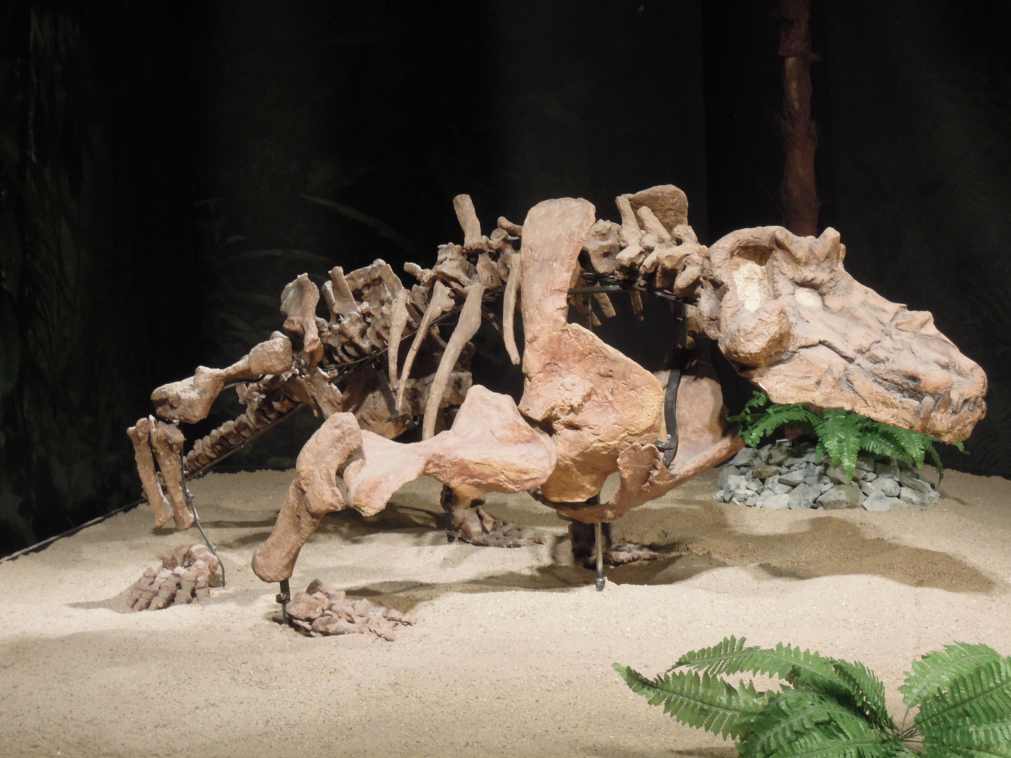 Estemmenosuchus uralensis, Dinosaurium exhibition, Prague, Czech Republic